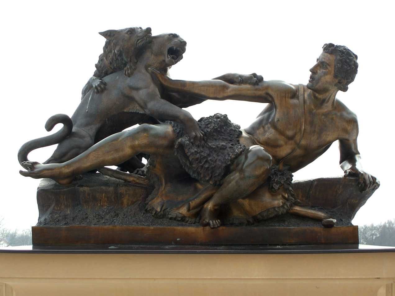 Sculpure “Schäfer im Kampf mit einem Panther” near Schweriner Schloss, sculpted by Julius Franz (Bildhauer) in 1852 (copy in bronze from 1997)